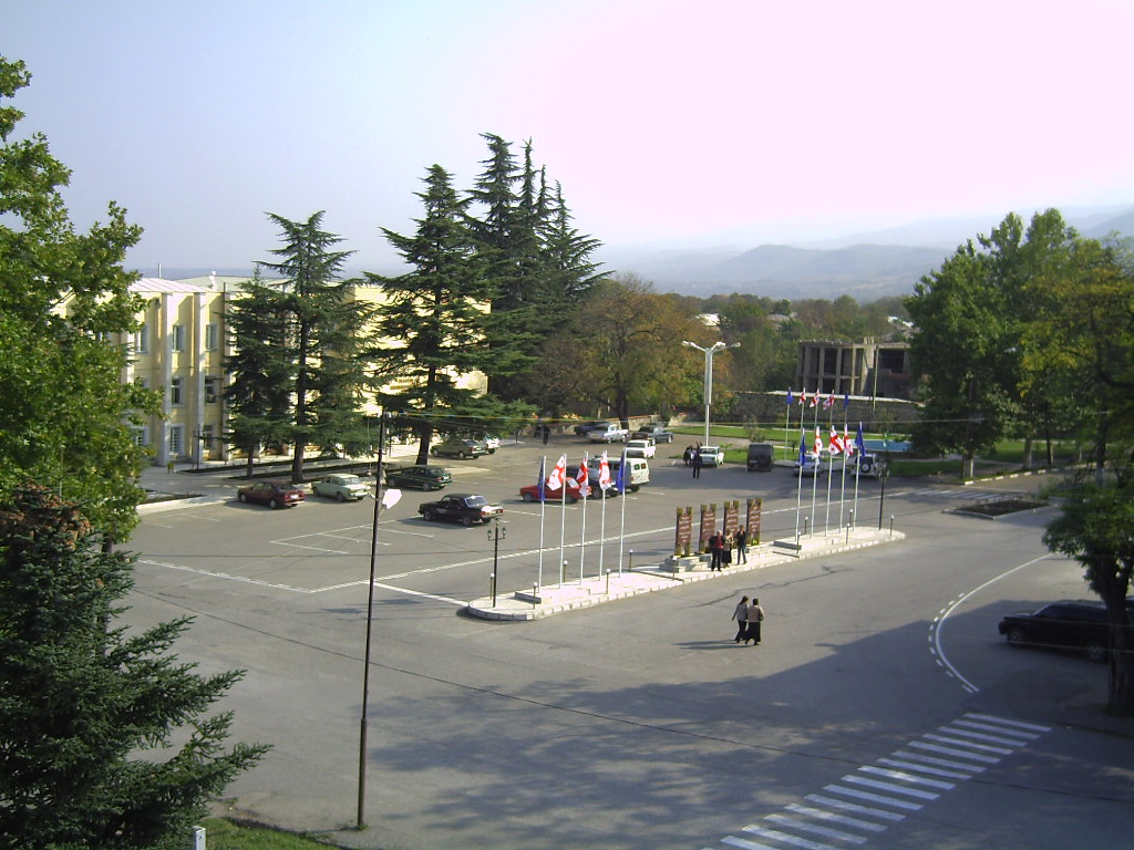 Akhmeta central square